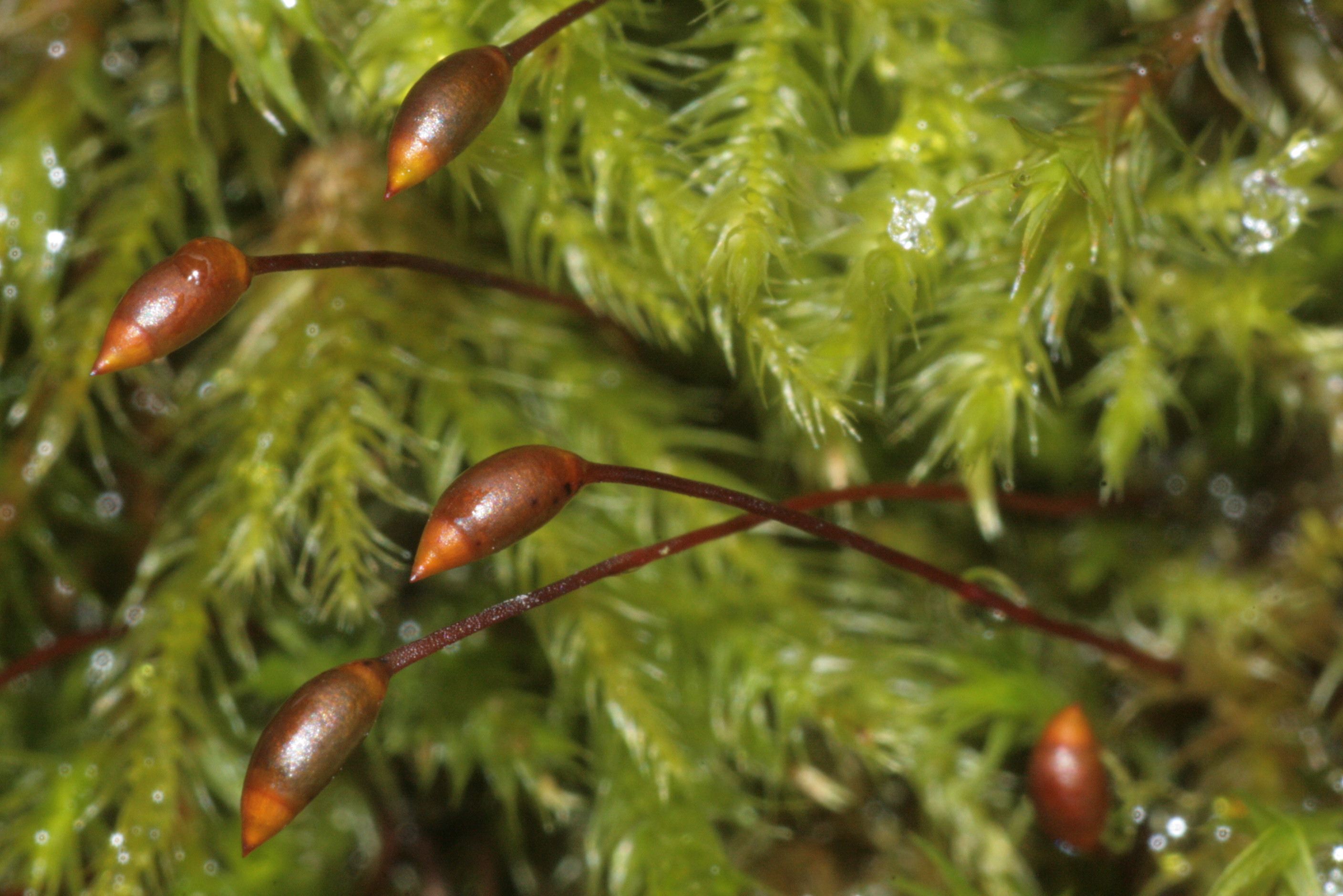 Brachythecium populeum